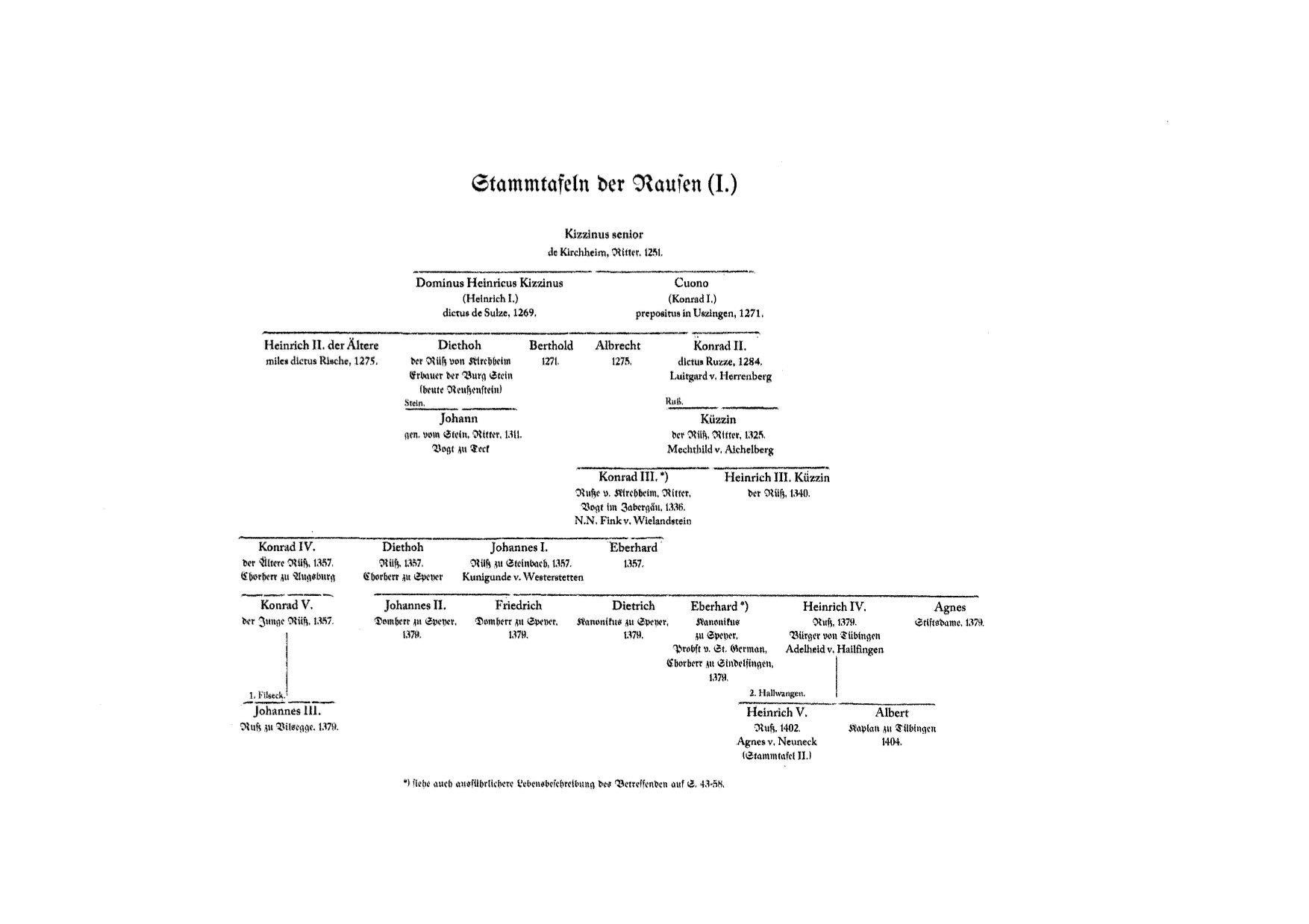 Genealogical tables of the House of Raus